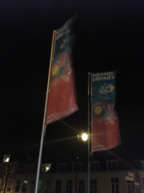 Banners for the grand depart of the 2015 Tour de France in Utrecht, the Netherlands